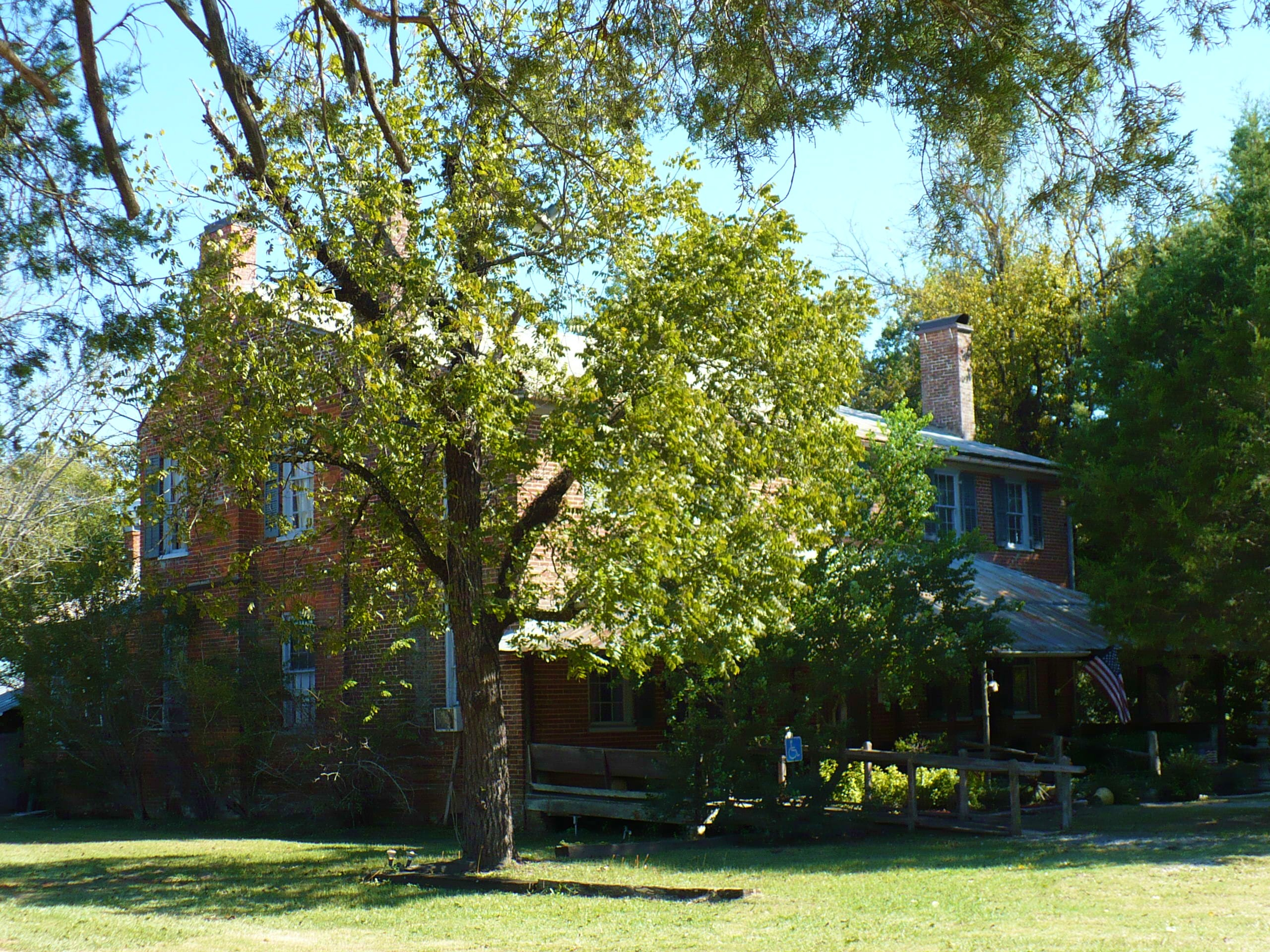 The Foscue House in Demopolis, Alabama, United States. Built in 1840 by Augustus Foscue, it is listed on the National Register of Historic Places.